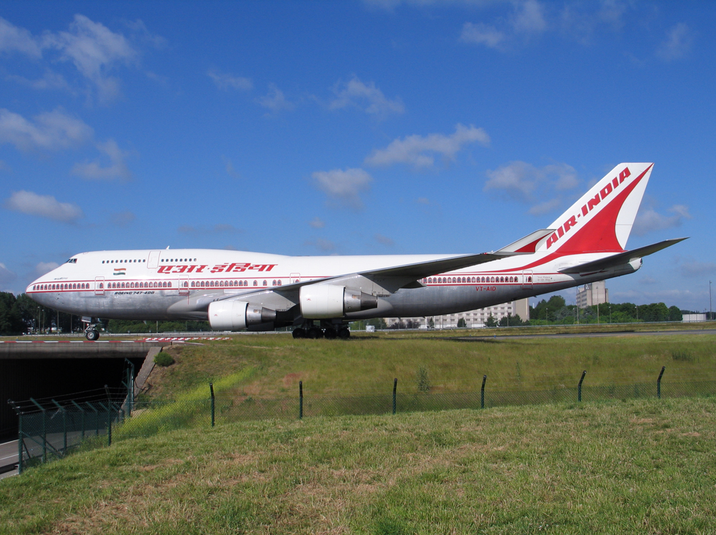 Boeing 747-400 airliner of Air India